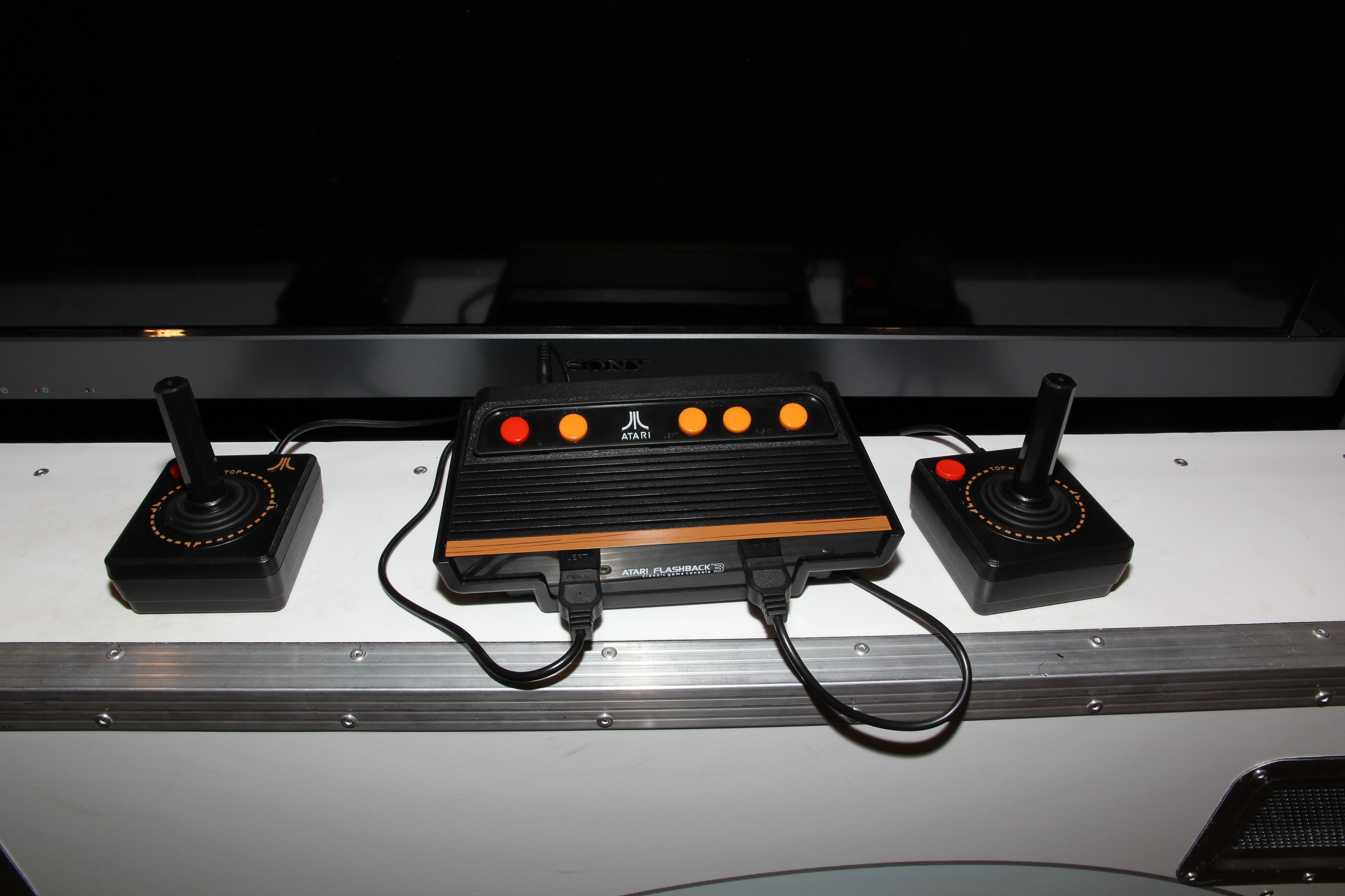 Atari Flashback 3 game console for playing classic games in Helsinki Computer and game console museum.